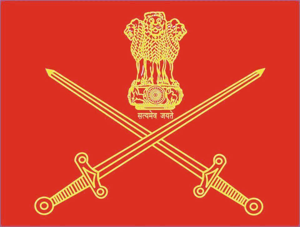 'Non-Ceremonial Flag of the Indian Army